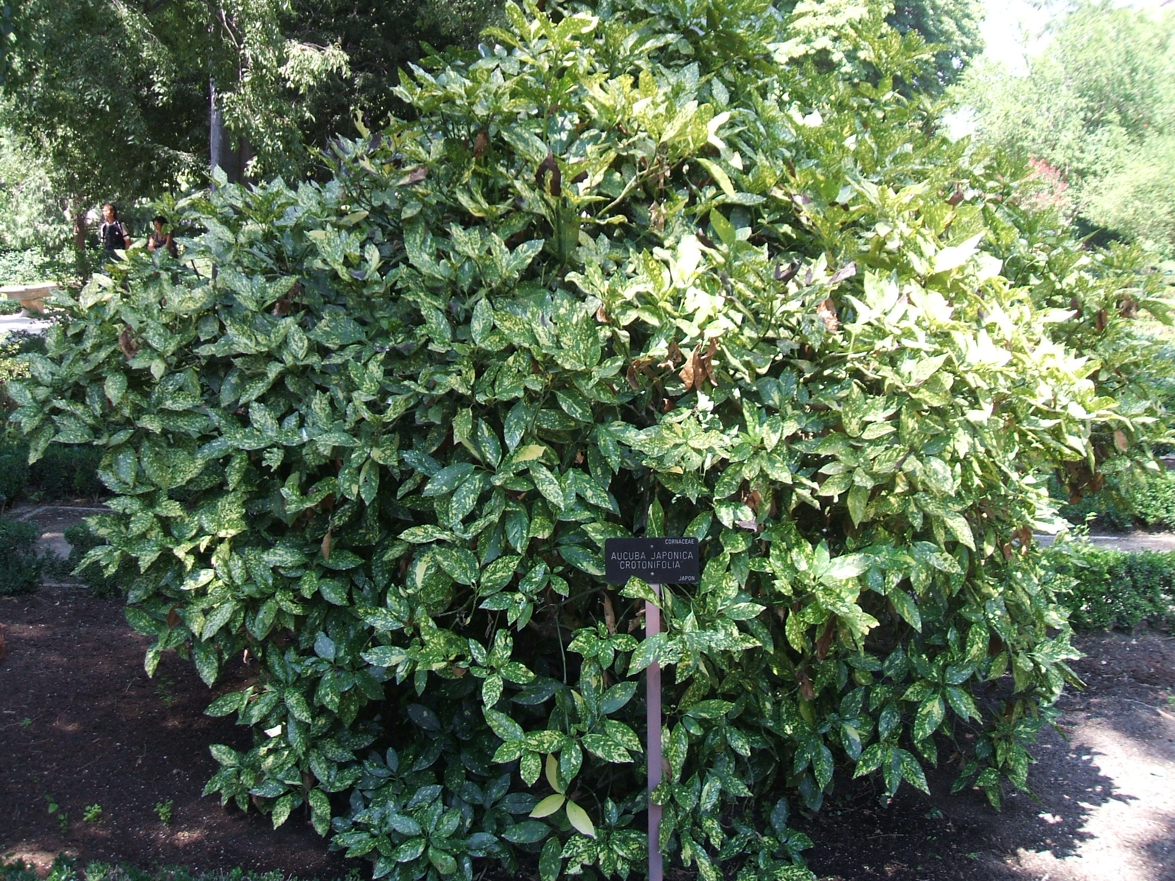 Jardin botanique de Madrid, 15-08-06 Uploaded by User:Bsm15, author of the picture.